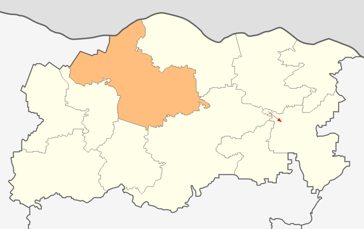 Map of Dolna Mitropolia municipality, Pleven Province